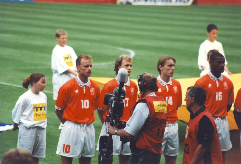 From left to right: Dennis Bergkamp, Jordi Cruyff, Richard Witschge and Winston Bogarde.